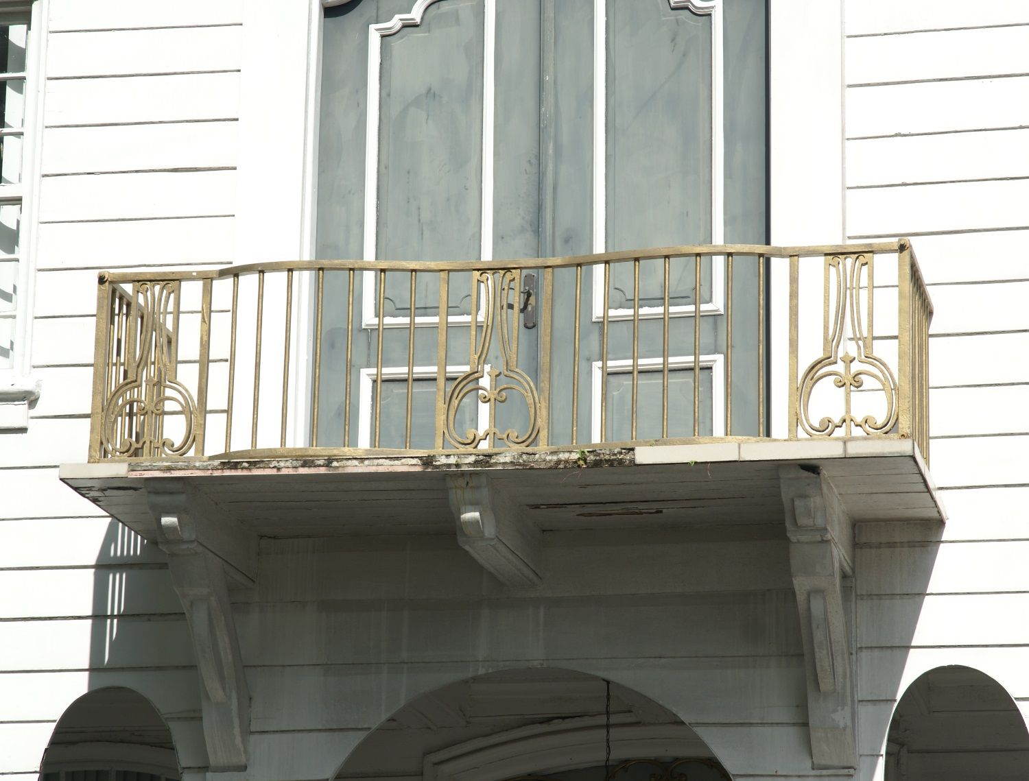 Onafhankelijkheidsplein 2, Paramaribo, Surinam. Balcony.